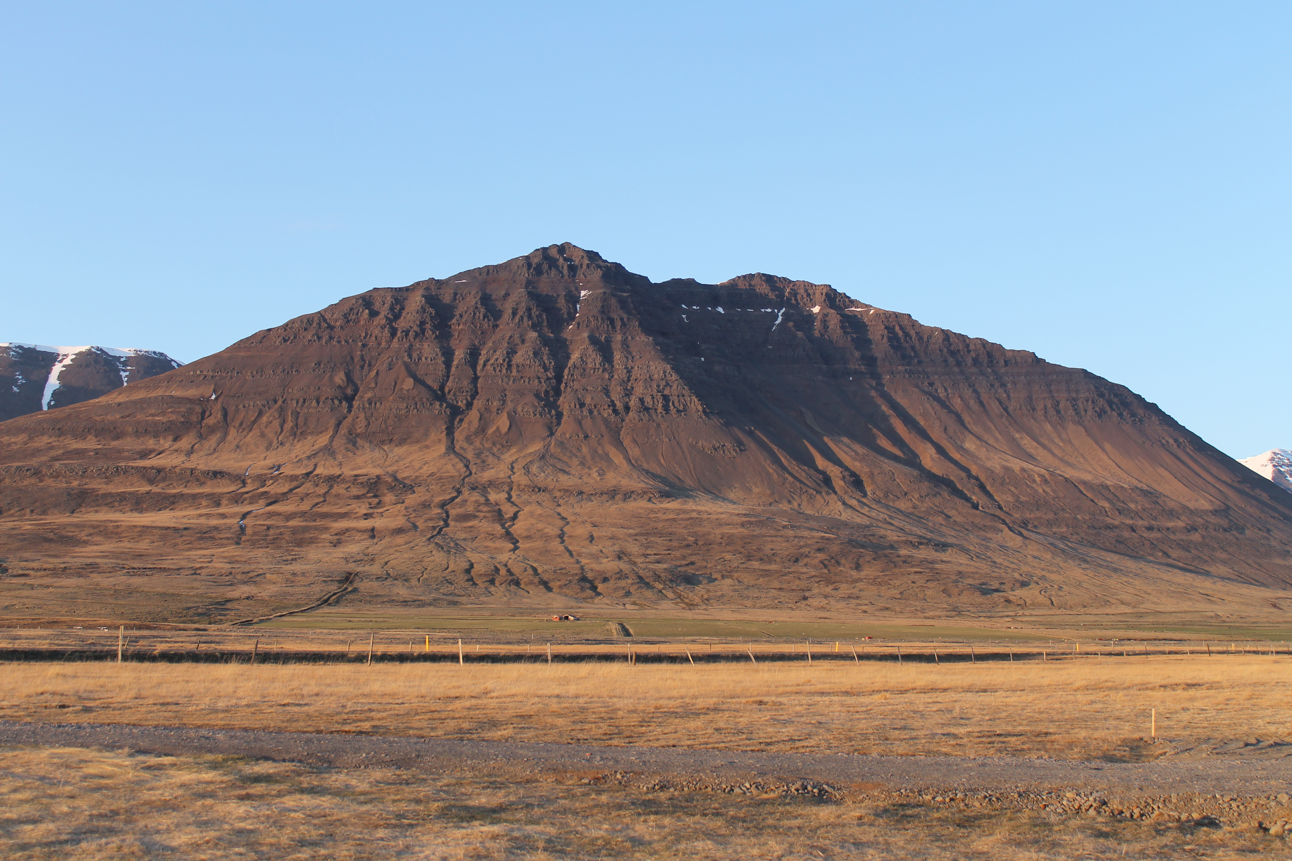 Glóðafeykir, a mountain in Skagafjörður in Northern Iceland.